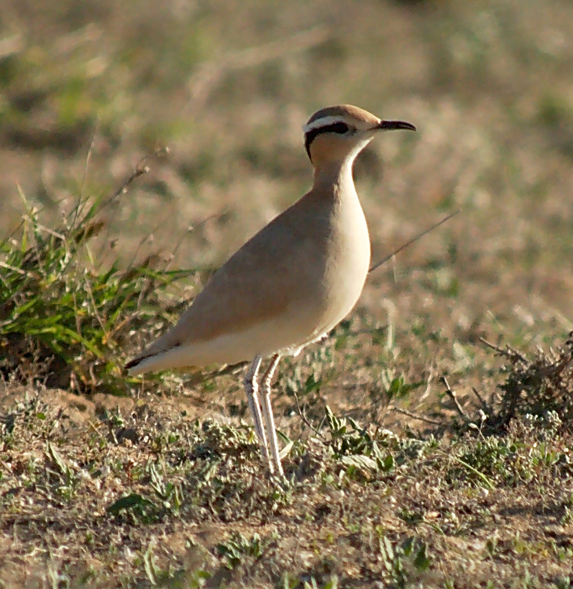 A Cream-coloured Courser Cursorius cursor on "El Jable" plains, near Sóo, Lanzarote, Canary Islands, Spain.